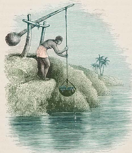 Chadouf Egyptian traveler's drawing of 1890: Man bending to raise water from river using a counterweight.